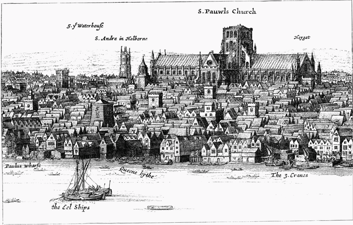 Old St. Paul's Cathedral from the Thames